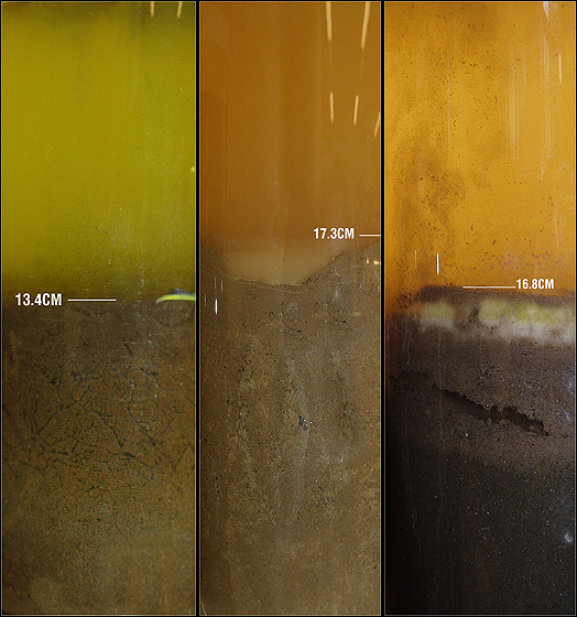 Photos edited specifically for the winogradsky column article - taken this year (2006).